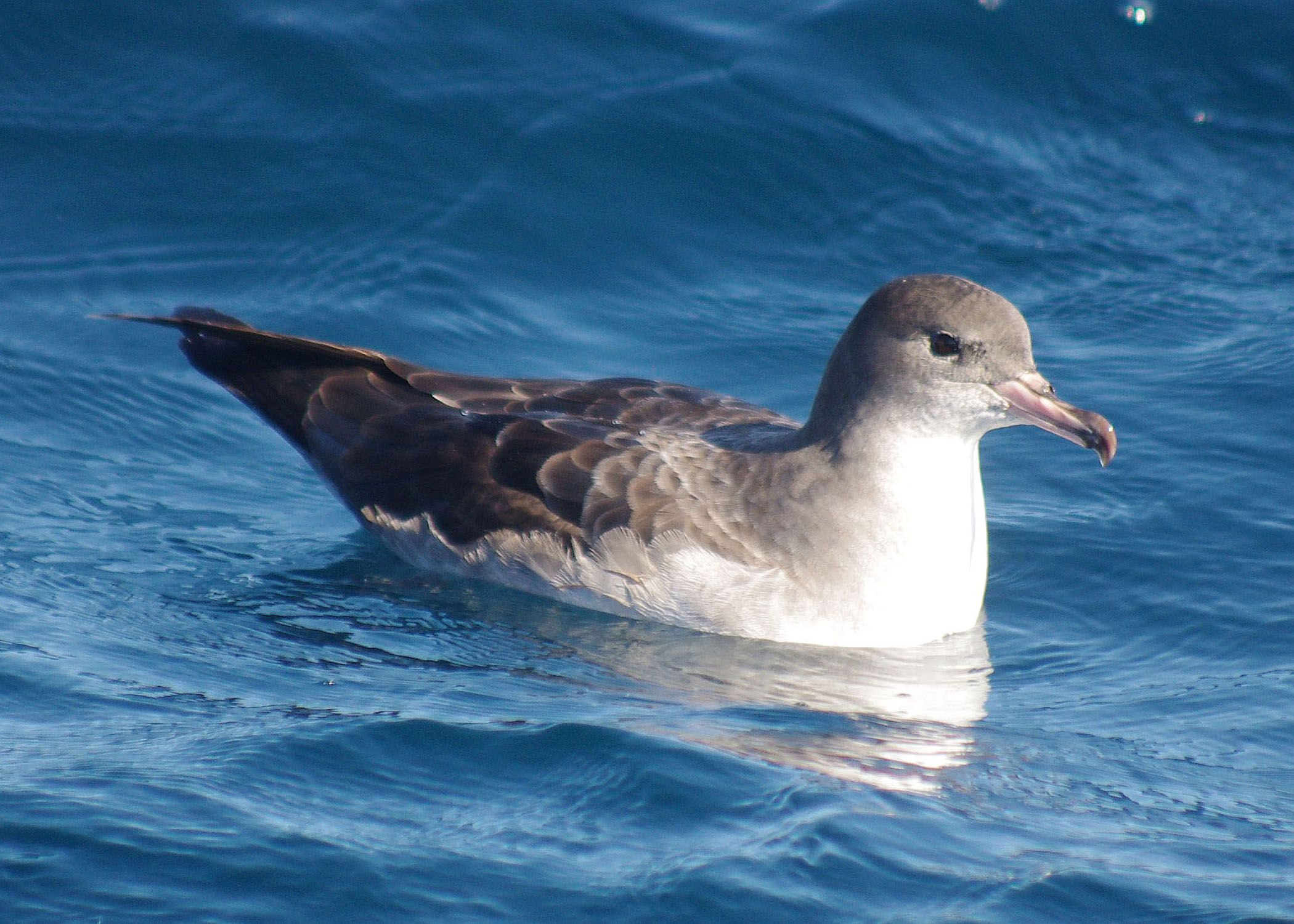 Photo by Martyne Reesman, Oregon Department of Fish and Wildlife- Pink-footed Shearwater (Puffinus creatopus) The world population of this species, which probably does not exceed 25,000 pairs, is quite low for a seabird. Nevertheless, these are the common light-bellied shearwaters off Oregon in summer. They are larger, bulkier, and fly more deliberately than the usually much more abundant Sooty Shearwaters with which they associate. They are uniform gray-brown above; the underparts are white; the vent and underwings variably smudged with dusky. The pinkish bill is dark-tipped and the feet are pink. It is a common summer visitor and very common fall transient offshore on shallow shelf waters. It is usually seen seaward, approximately 5-10 miles off Oregon's shores.